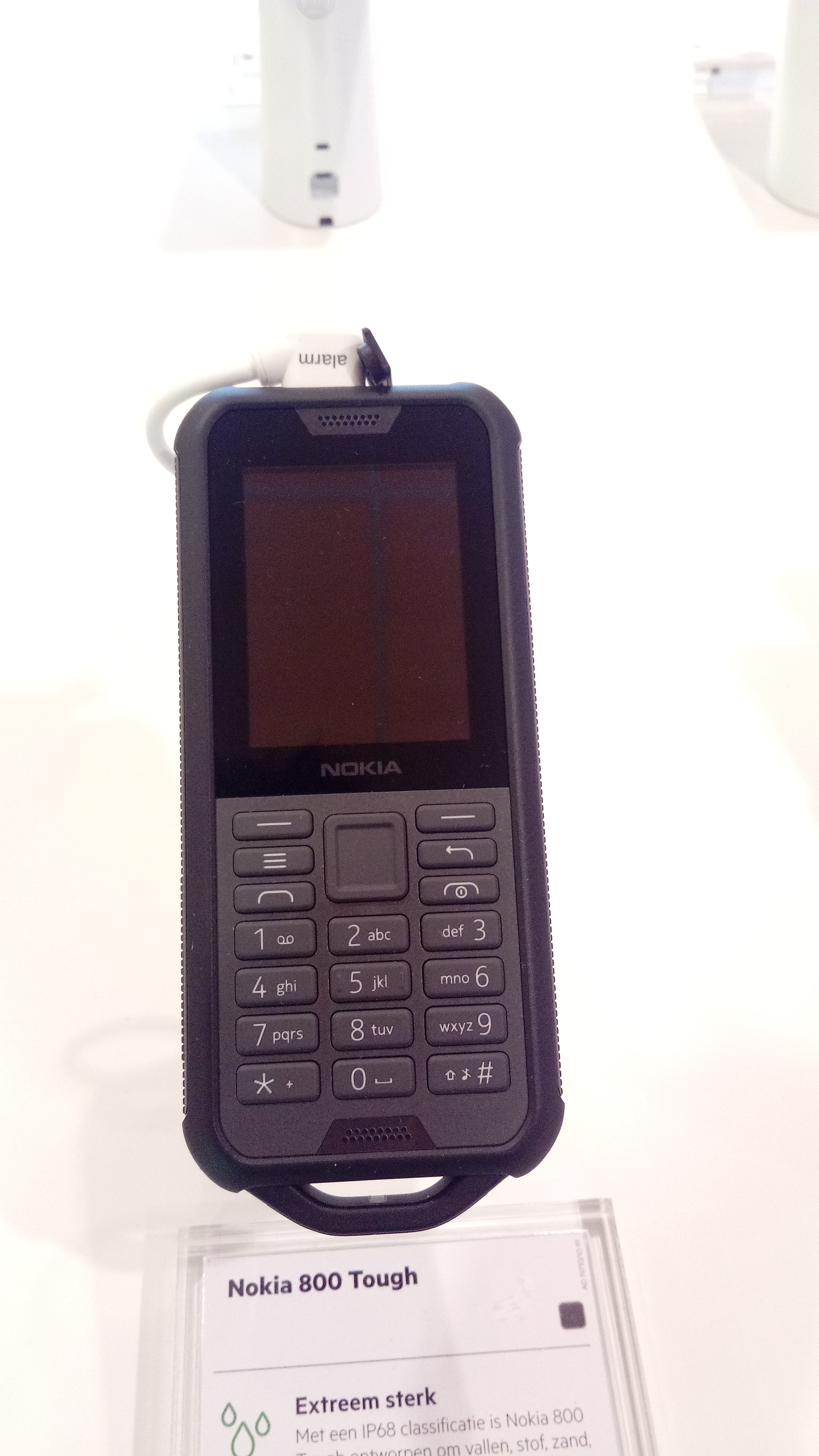 A mobile telephone for sale inside of a small local KPN-branded mobile telephone shop in the Groninger city of Winschoten, Oldambt.